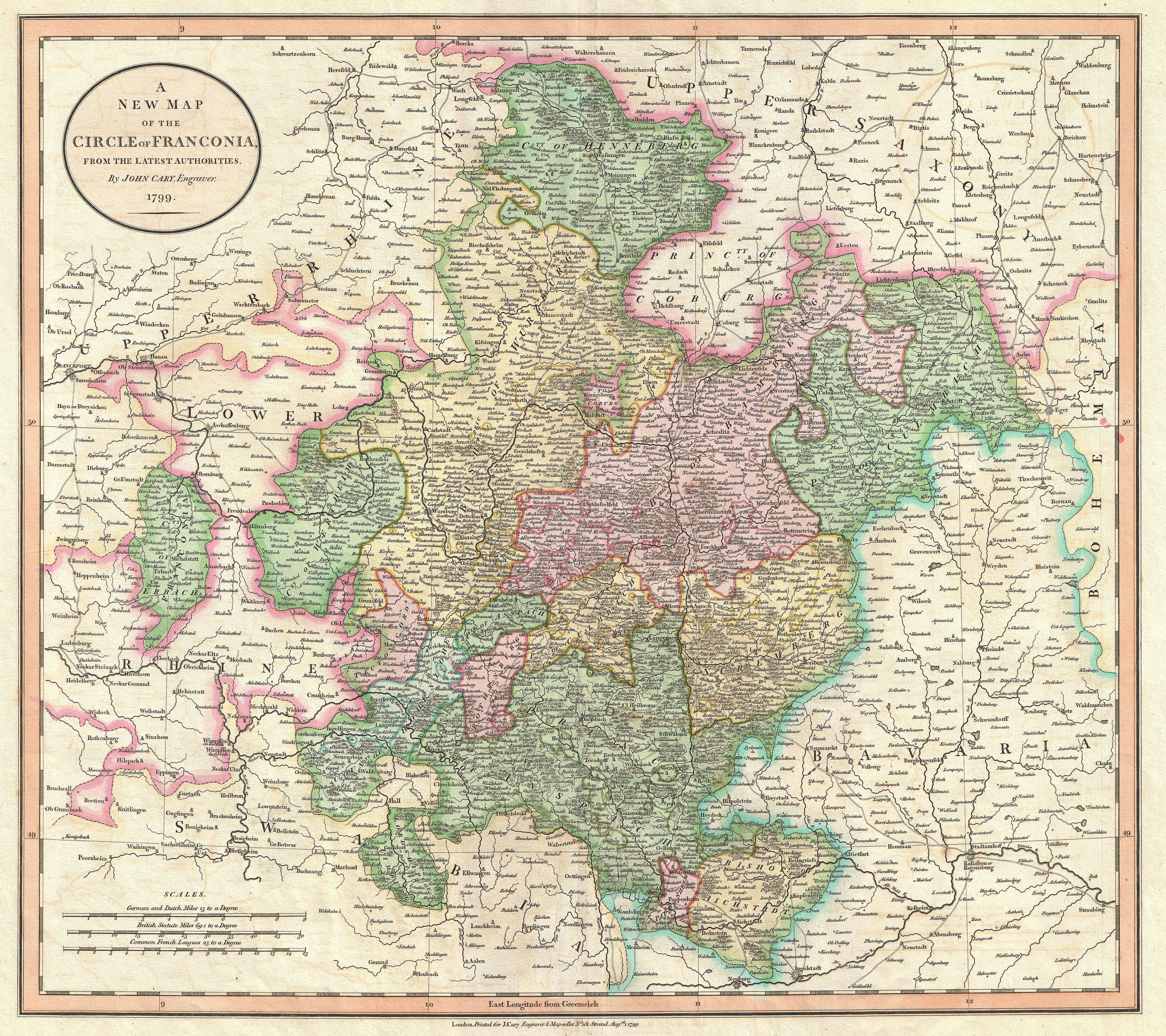 An extremely attractive example of John Cary’s 1799 map of Franconia, Germany. Covers from Upper Saxony south to Swabia, west to the Lower Rhine and west to the Bavaria. Includes the important mediaeval and renaissance center of Nuremburg. Today Franconia is a historic district and has been consolidated with Bavaria. Highly detailed with color coding according to region. Shows forests, cities, palaces, forts, roads and rivers. All in all, one of the most interesting and attractive atlas maps Franconia to appear in first years of the 19th century. Prepared in 1799 by John Cary for issue in his magnificent 1808 New Universal Atlas .